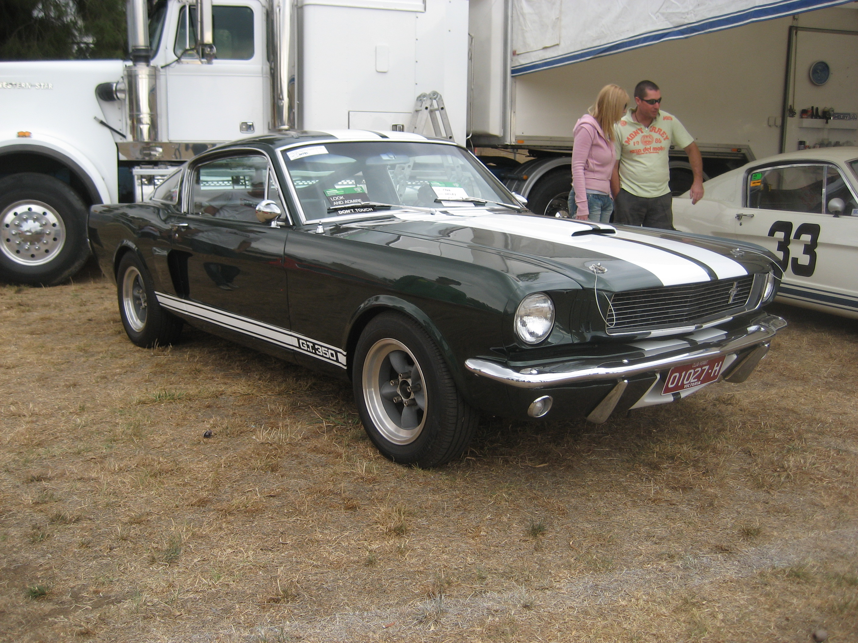 The Shelby Mustang was a high performance version of the Ford Mustang which were built by Shelby America from 1965-1970. Engine; all 1965-66 Shelby Mustangs had the 306 bhp K Code 289 V8 with high riser manifold. They also got the stronger rear end out of the Galaxie in place of the original Falcon rear end. The 1966 car was less of a racing car, it now got a back seat and was available in 5 different colours; Ivy Green also White, Red, Blue and Black. Most were Fastbacks, but 6 Convertibles were built. 1373 GT350s made. Engine; 306 bhp K code 289 V8